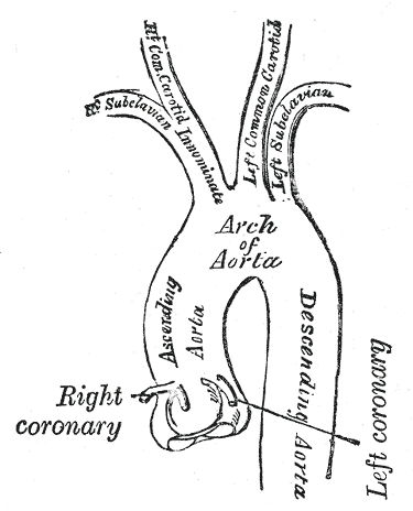 The only branches of the ascending aorta are the two coronary arteries which supply the heart; they arise near the commencement of the aorta immediately above the attached margins of the semilunar valves. The branches given off from the arch of the aorta are three in number: the innominate, the left common carotid, and the left subclavian.